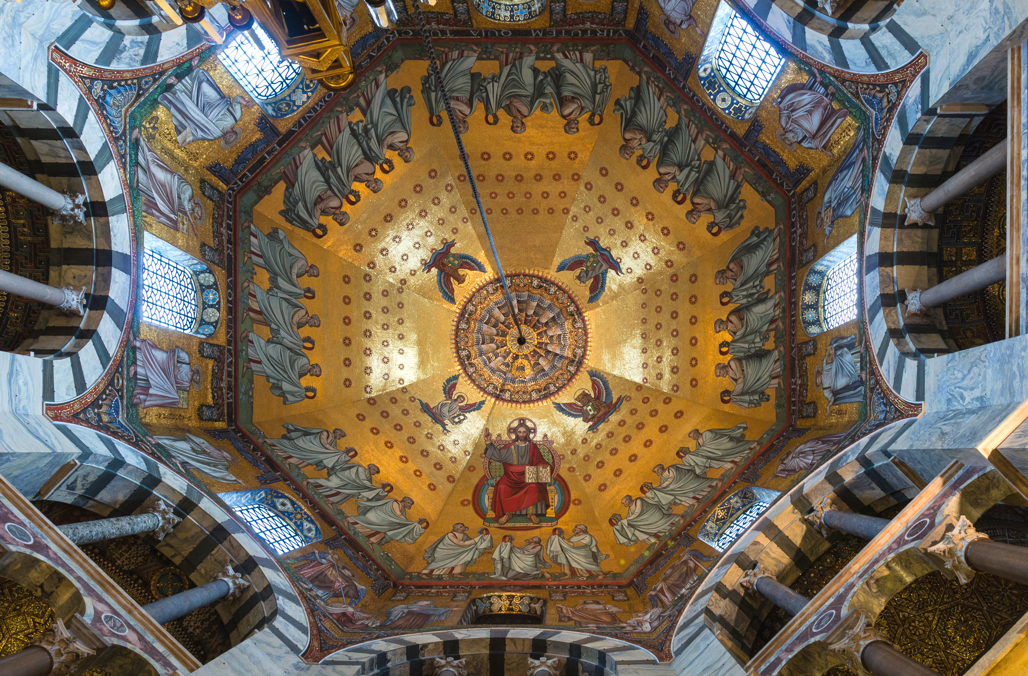 View of the mosaics of the main octagonal cupola ceiling of the cathedral, Aachen, Germany. The picture is not centered, in order to avoid the great chandelier